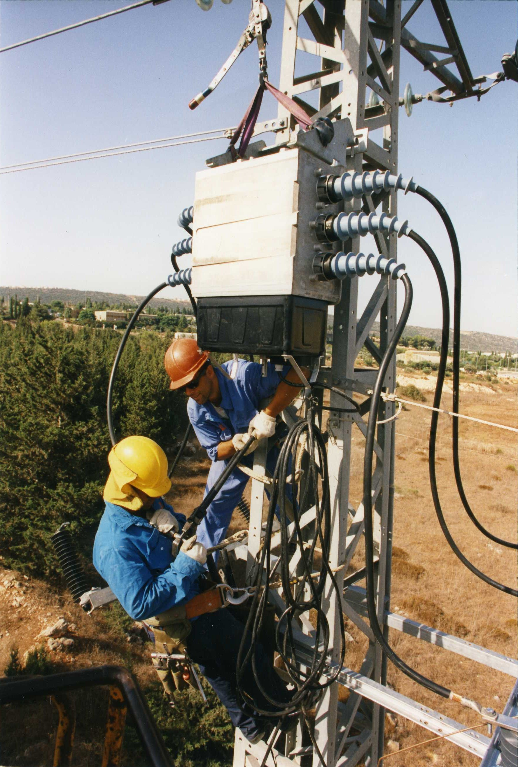 Electricity network maintenance, Industry in Israel